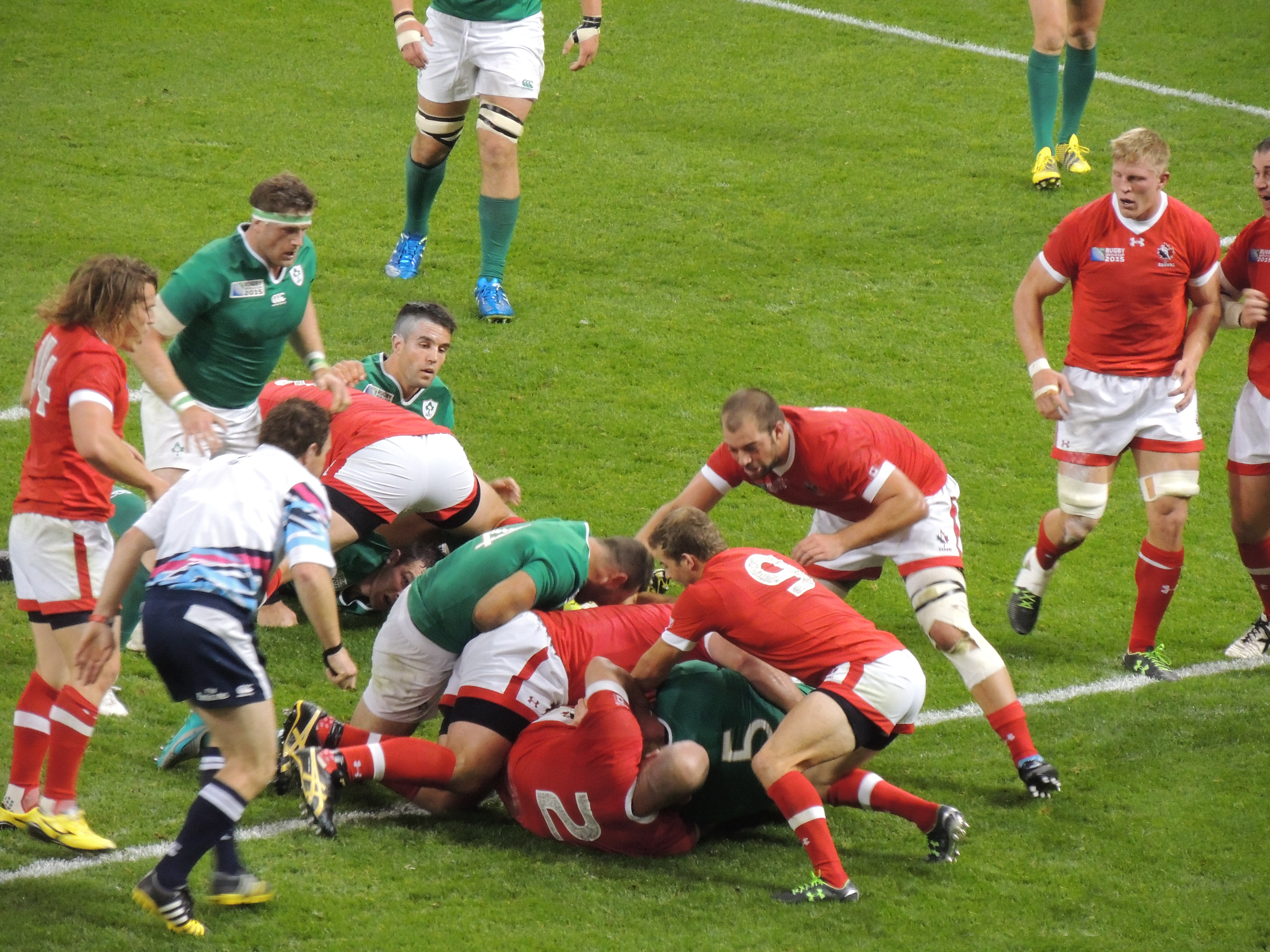 2015 Rugby World Cup Ireland vs Canada